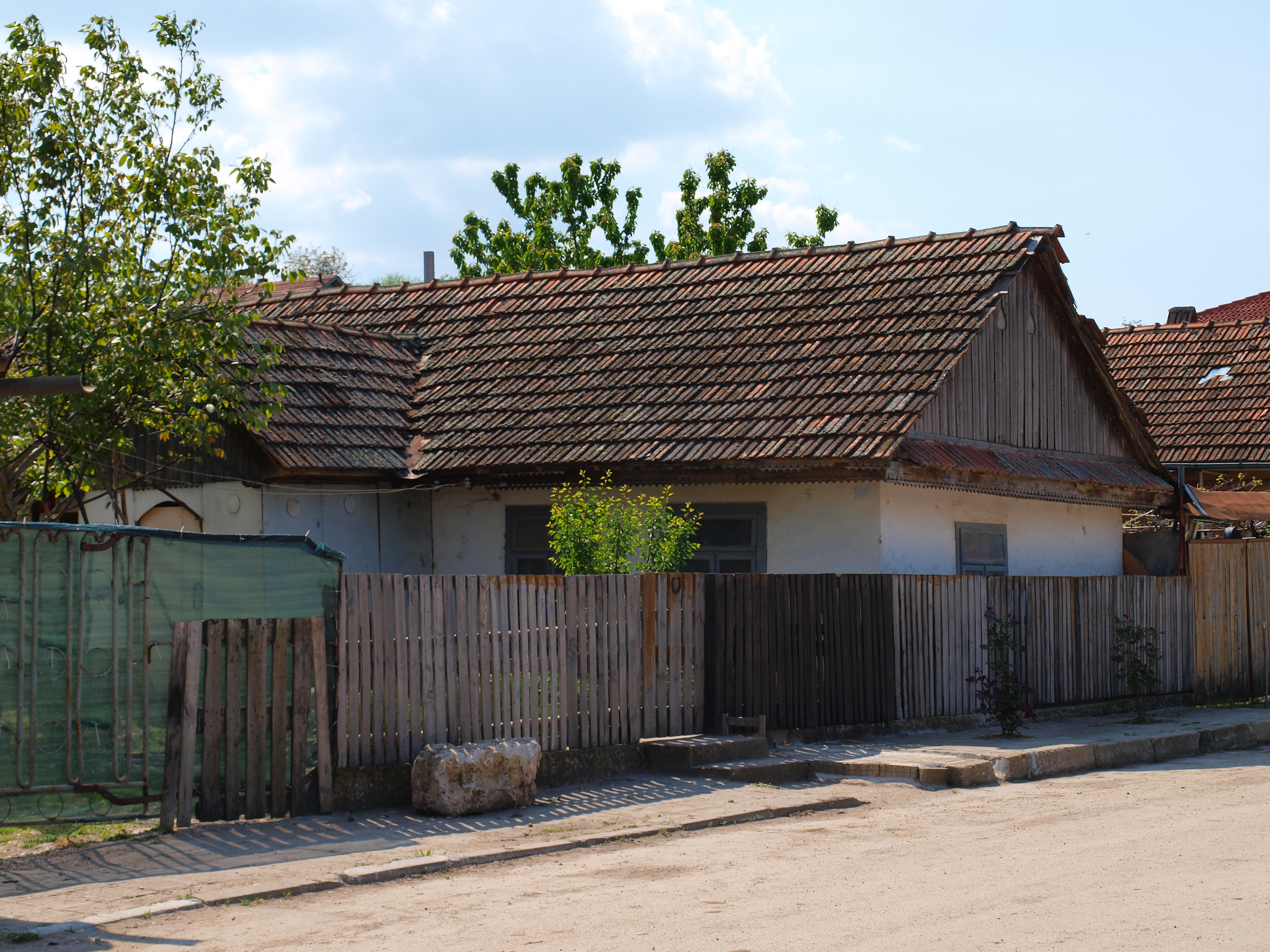 Old Believer Lipovan Russian house in Tataritsa, Aydemir, Silistra Province, Bulgaria